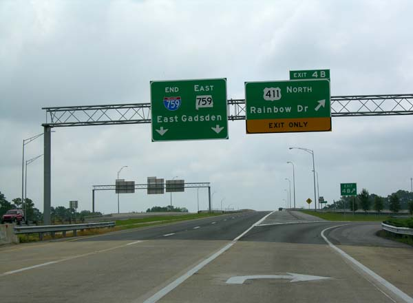 Eastern terminus of Interstate 759 and the western terminus of Alabama State Route 759 in Gadsden, Alabama